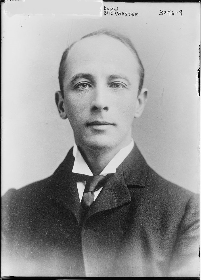 Stanley Buckmaster, 1st Viscount Buckmaster circa 1910